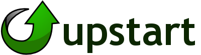 This is a logo for Upstart.